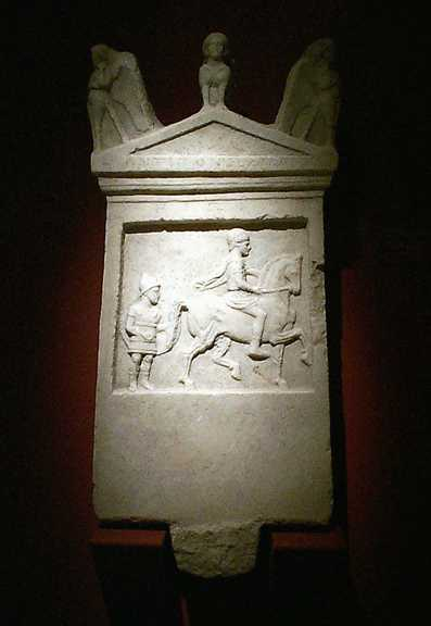 Grave stele of the Roman period from Petres (2nd cent. BC), image from the Archaeological and Byzantine Museum, Florina, West Macedonia, Greece